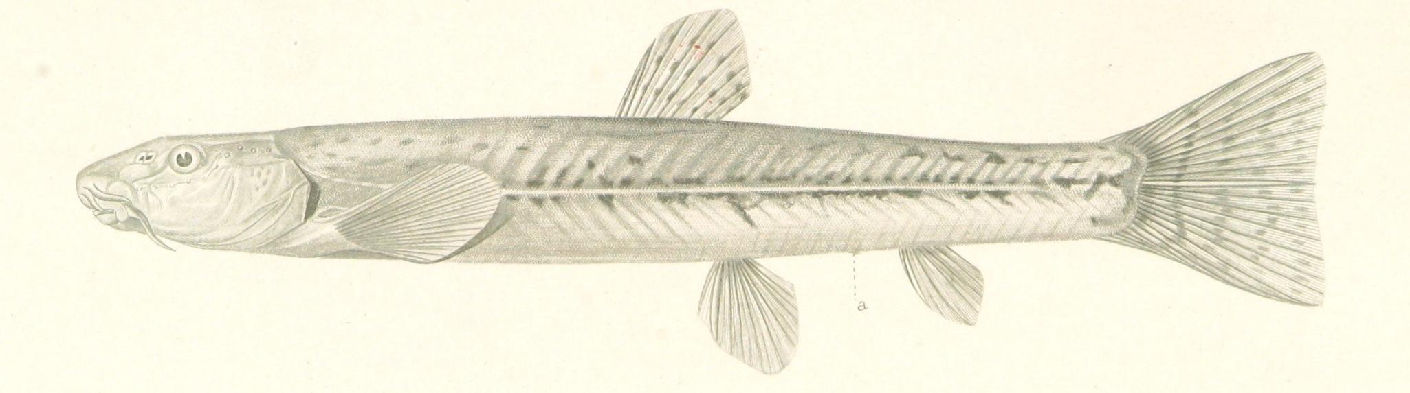 The Stone loach Triplophysa dalaica, under its old name Diplophysa dalaica.